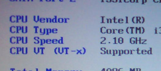 Information about an Intel Core i3 processor as seen from the BIOS of a computer. Shows 'Vendor'; 'Type'; 'Speed' of the processor, and virtualization support.